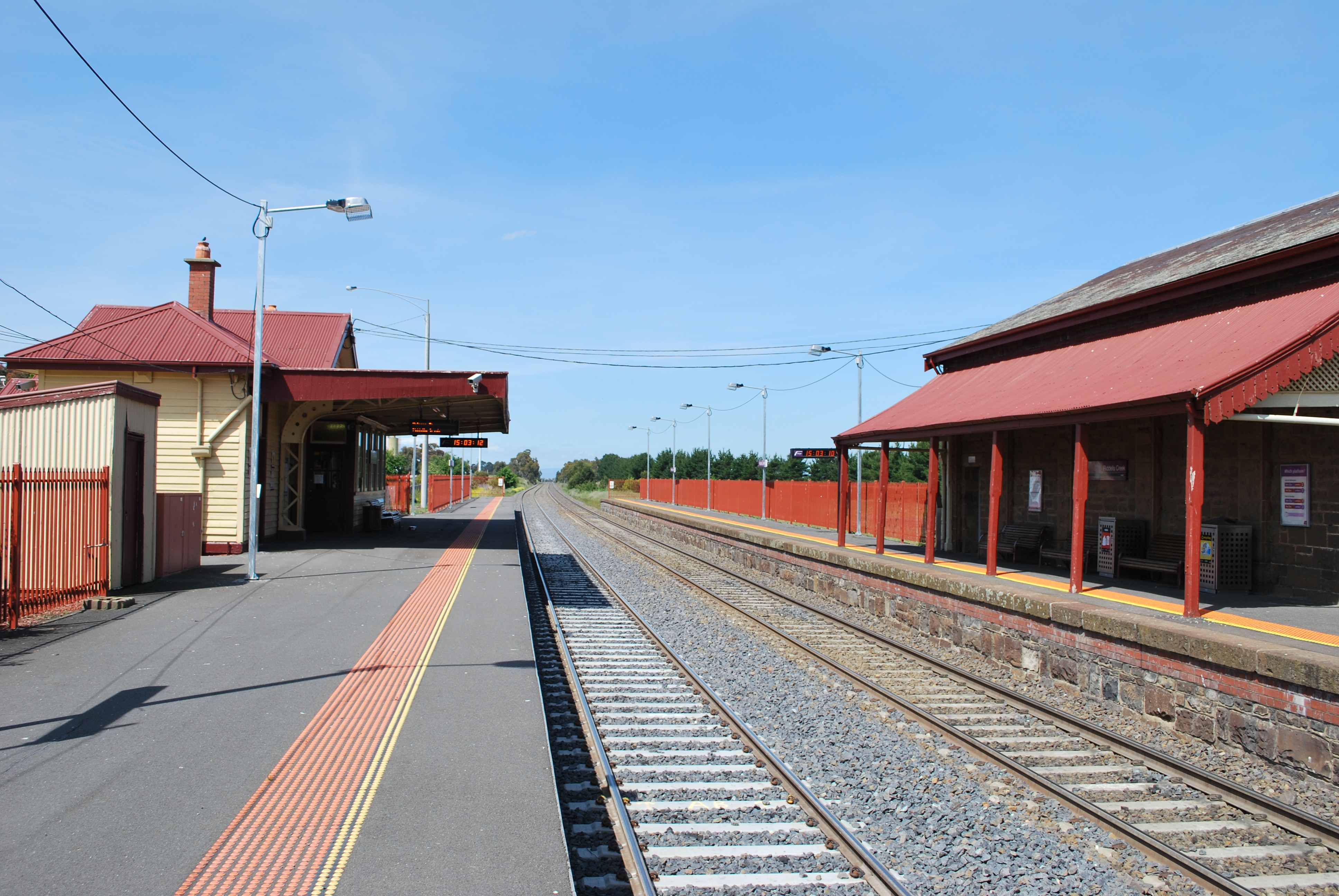 Platform - Riddells Creek railway station at Riddells Creek, Victoria